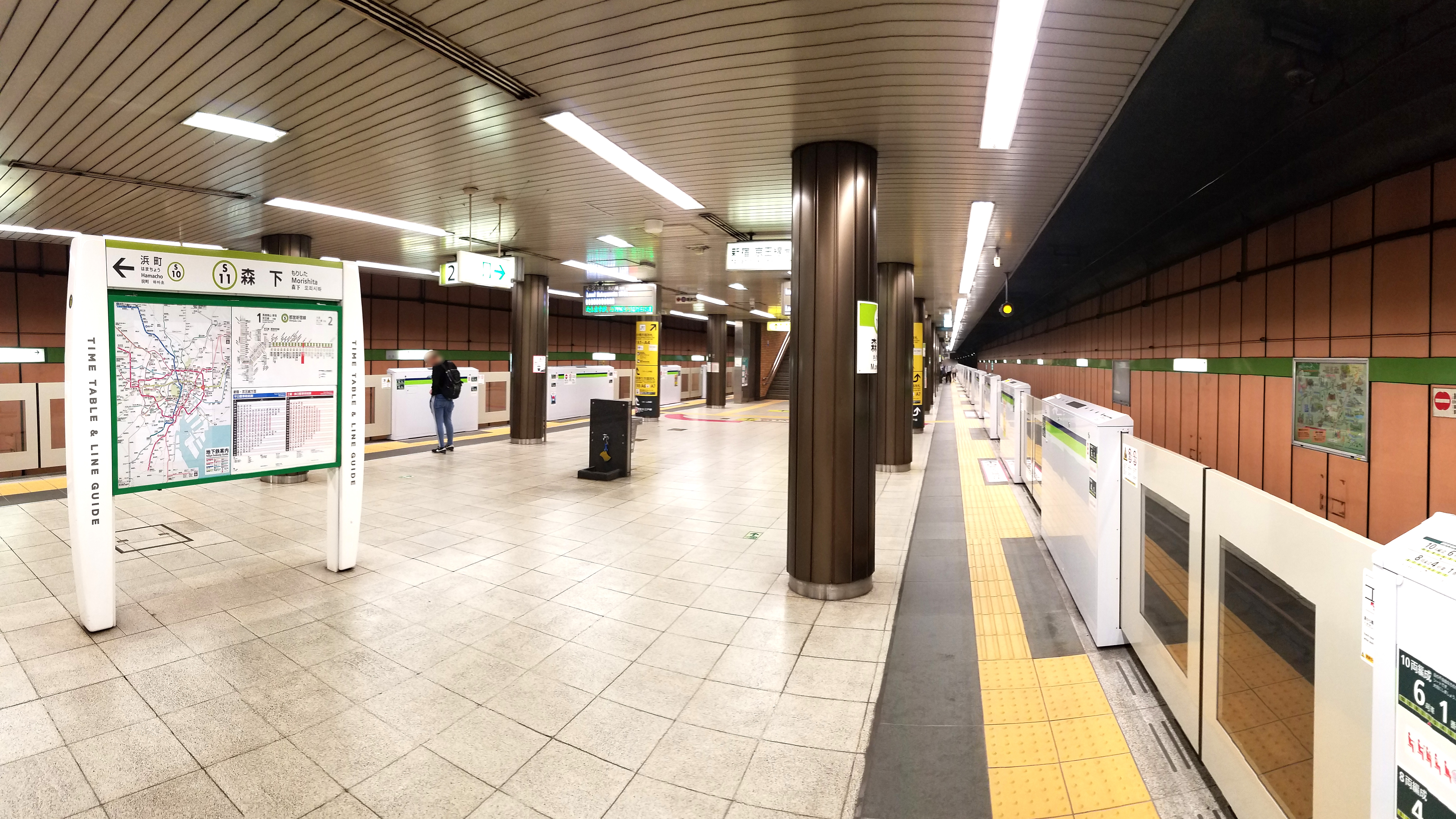 The platform at Morishita Station on the Toei Shinjuku Line in Kōtō city, Tokyo, Japan